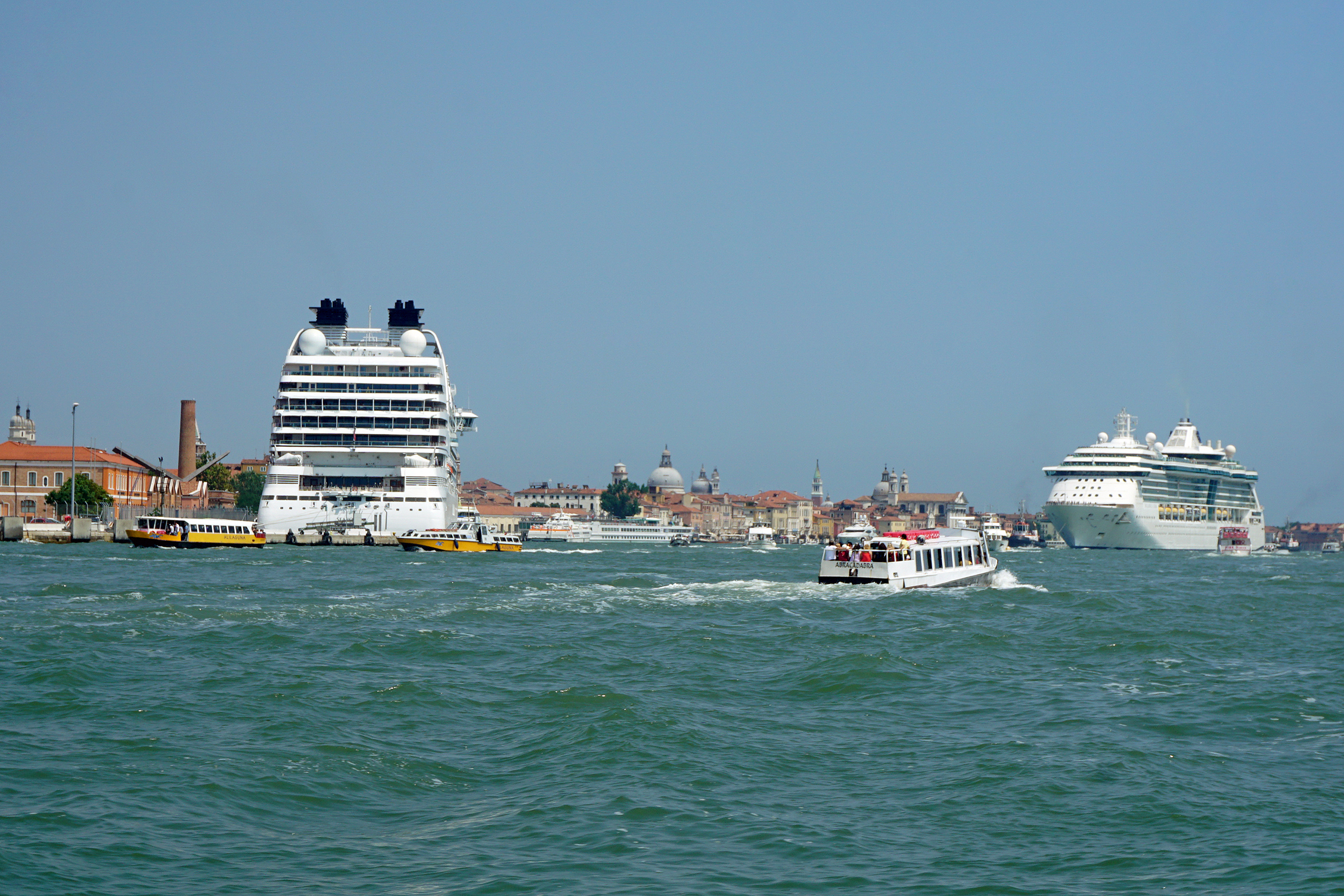 Cruise ships on the Giudecca Canal calling Venezia port (Terminal Passeggeri), Italy.